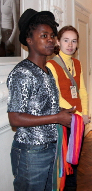 Zanele Muholi (2011).